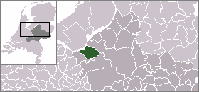 Locator map of Dutch municipalities in Gelderland (LocatiePutten.png)